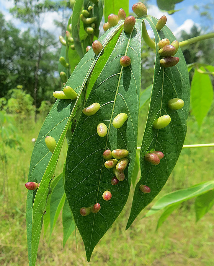 Caused by a gall midge of the Cecidomyiidae family. These do not affect the plants ability to produce Yuca roots.